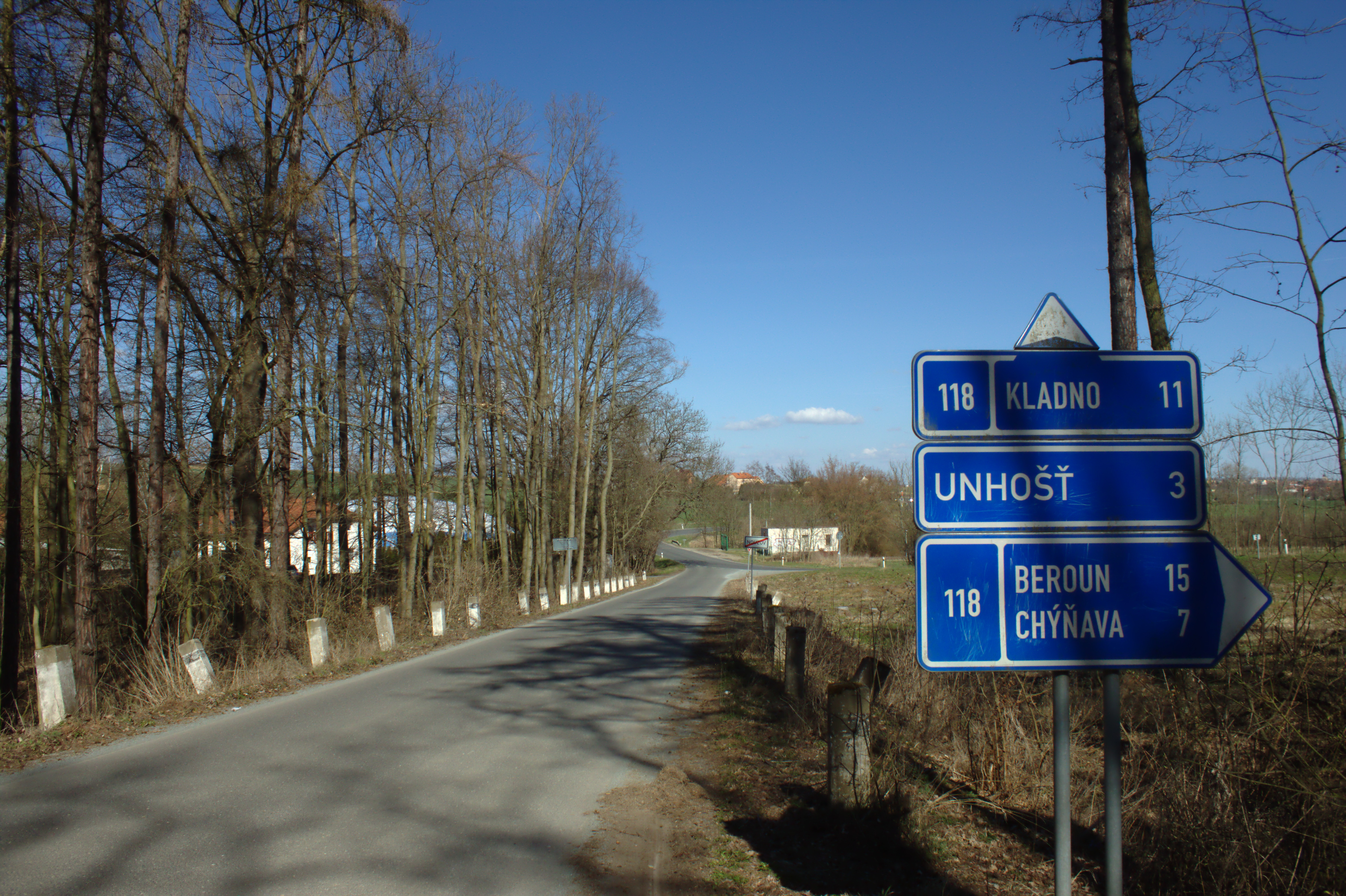 A road at the northern edge of the village of Nouzov, Central Bohemia, CZ